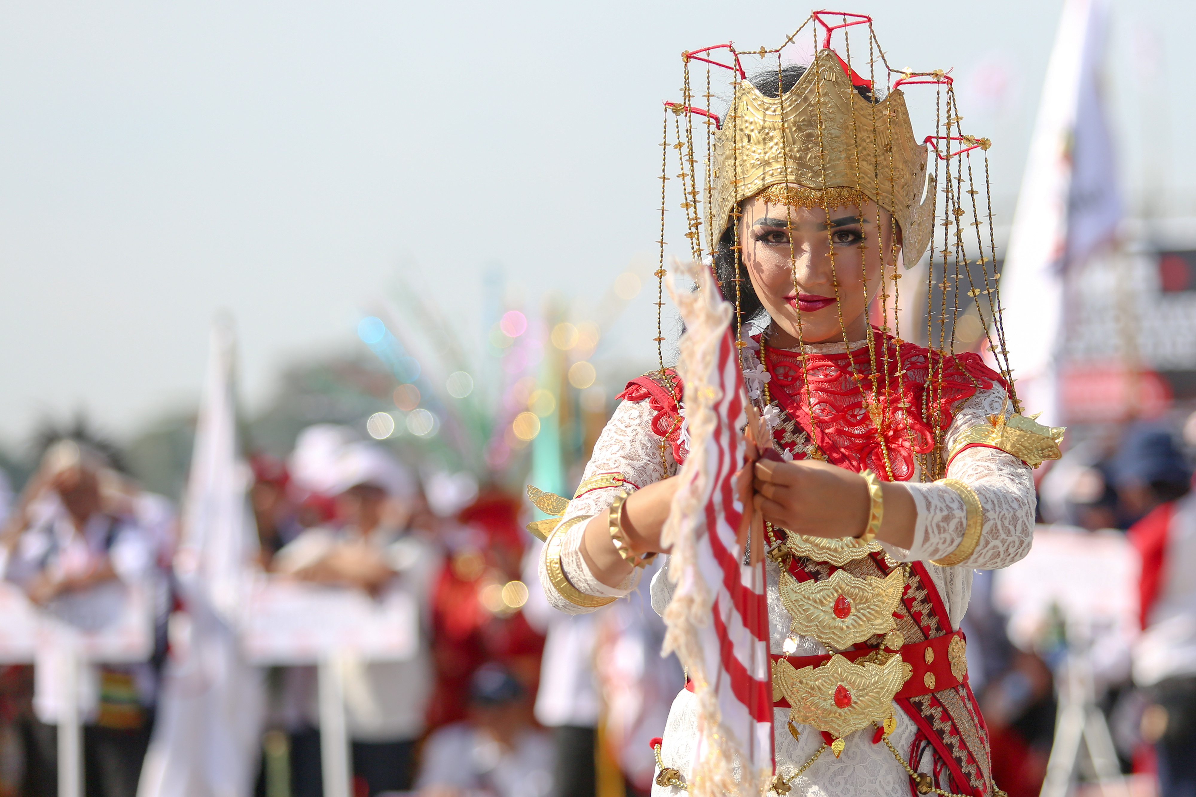 Melinting Dance from Lampung being performed in Purwakarta (17/09)